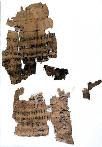 Papyrus 54:Jas 2,16-18